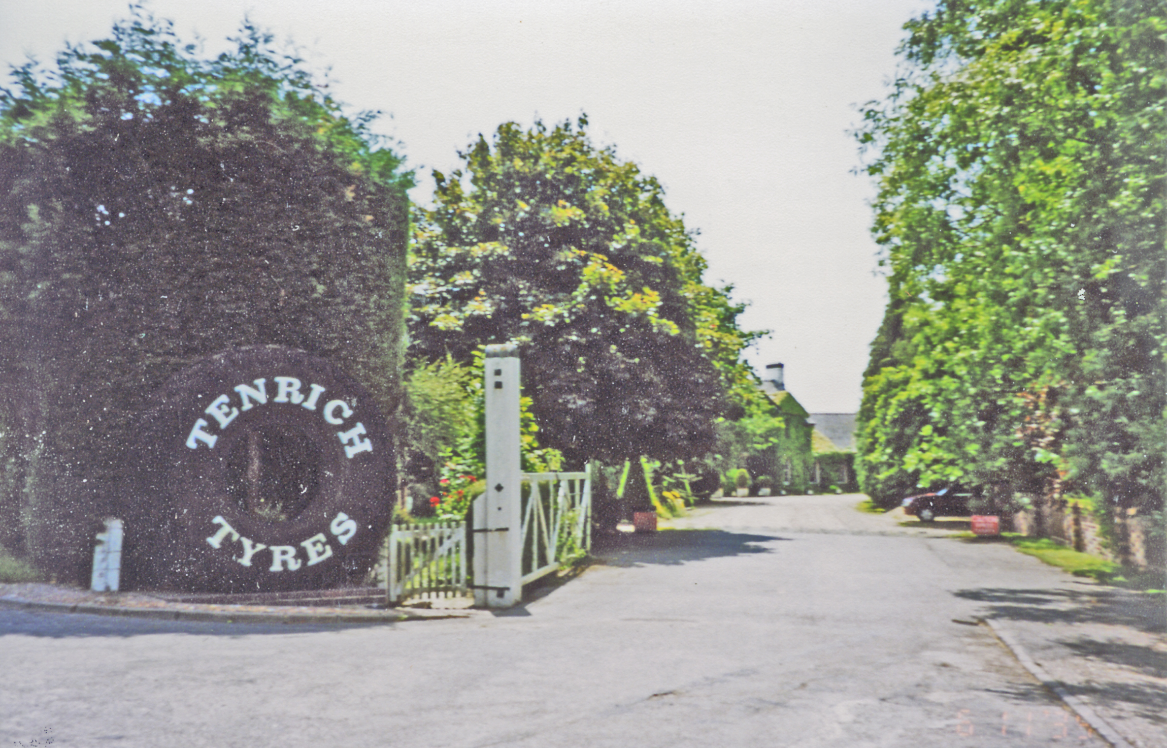 Isleham: site/remains of station. View westward, towards Fordham and Cambridge: ex-GER Cambridge - Fordham - Mildenhall branch, all closed 18/6/62 to passengers, 13/7/64 to freight